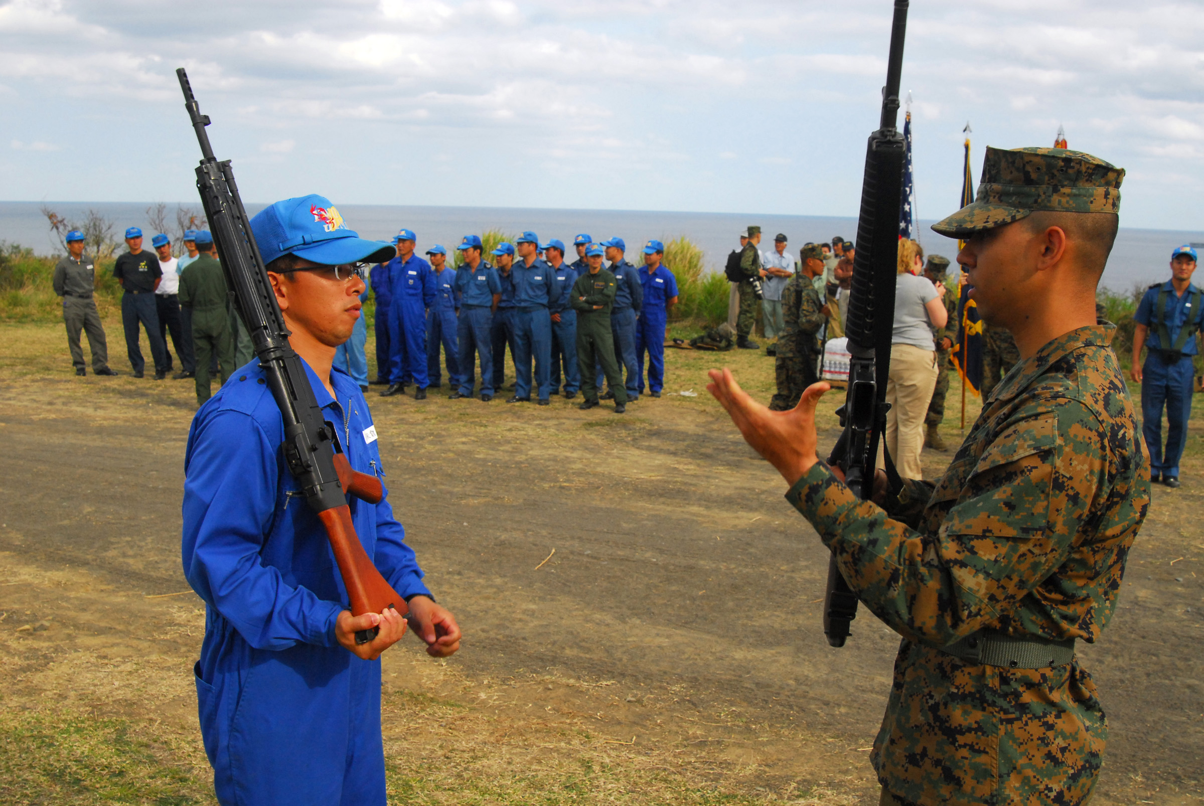 IWO JIMA, Japan (March 13, 2007) - A Marine assigned to the 1st Marine Aircraft Wing (MAW) ceremonial guard demonstrates a rifle maneuver to a member of the Japan Maritime Self Defense Force during a rehearsal for a joint commemoration in honor of those who fought in Battle of Iwo Jima. Dock landing ship USS Harpers Ferry (LSD 49) is visiting the island to support the 62nd Commemoration of the Battle of Iwo Jima. In conjunction with the commemoration, Sailors and Marines had the opportunity to see historical remnants of the World War II battle and to honor fallen service members of both forces. U.S. Navy photo by Mass Communication Specialist 2nd Class Adam R. Cole (RELEASED)